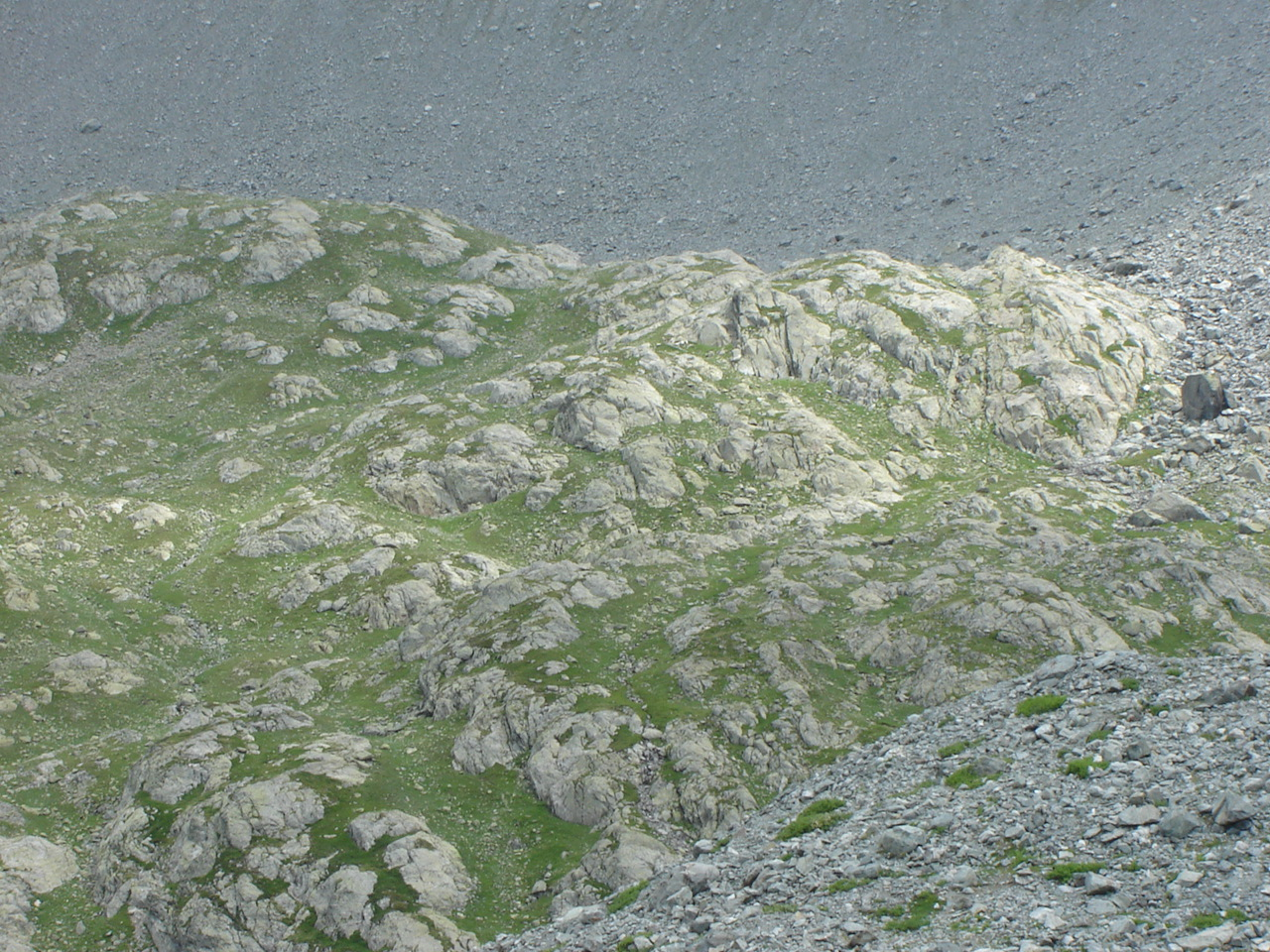 Roche moutonnée near Arsine Glacier, Écrins national Park, French Alps